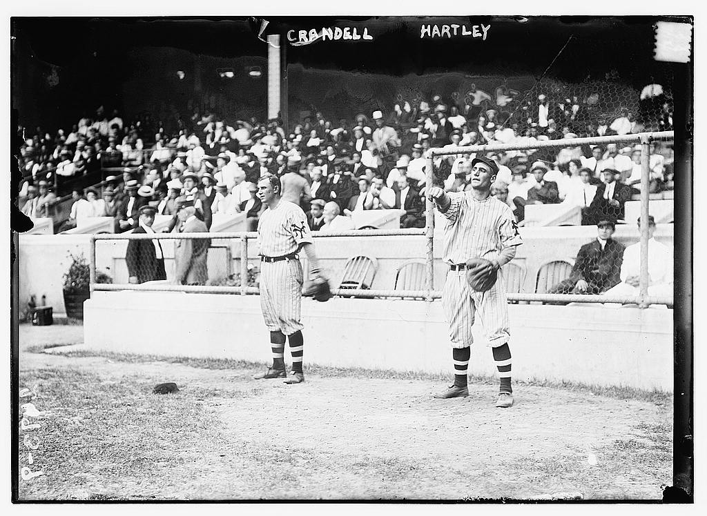 Doc Crandall (left) & Grover Hartley (right) at Polo Grounds, NY, New York CALL NUMBER: LC-B2- 2493-9[P&P] REPRODUCTION NUMBER: LC-DIG-ggbain-11268 (digital file from original negative)